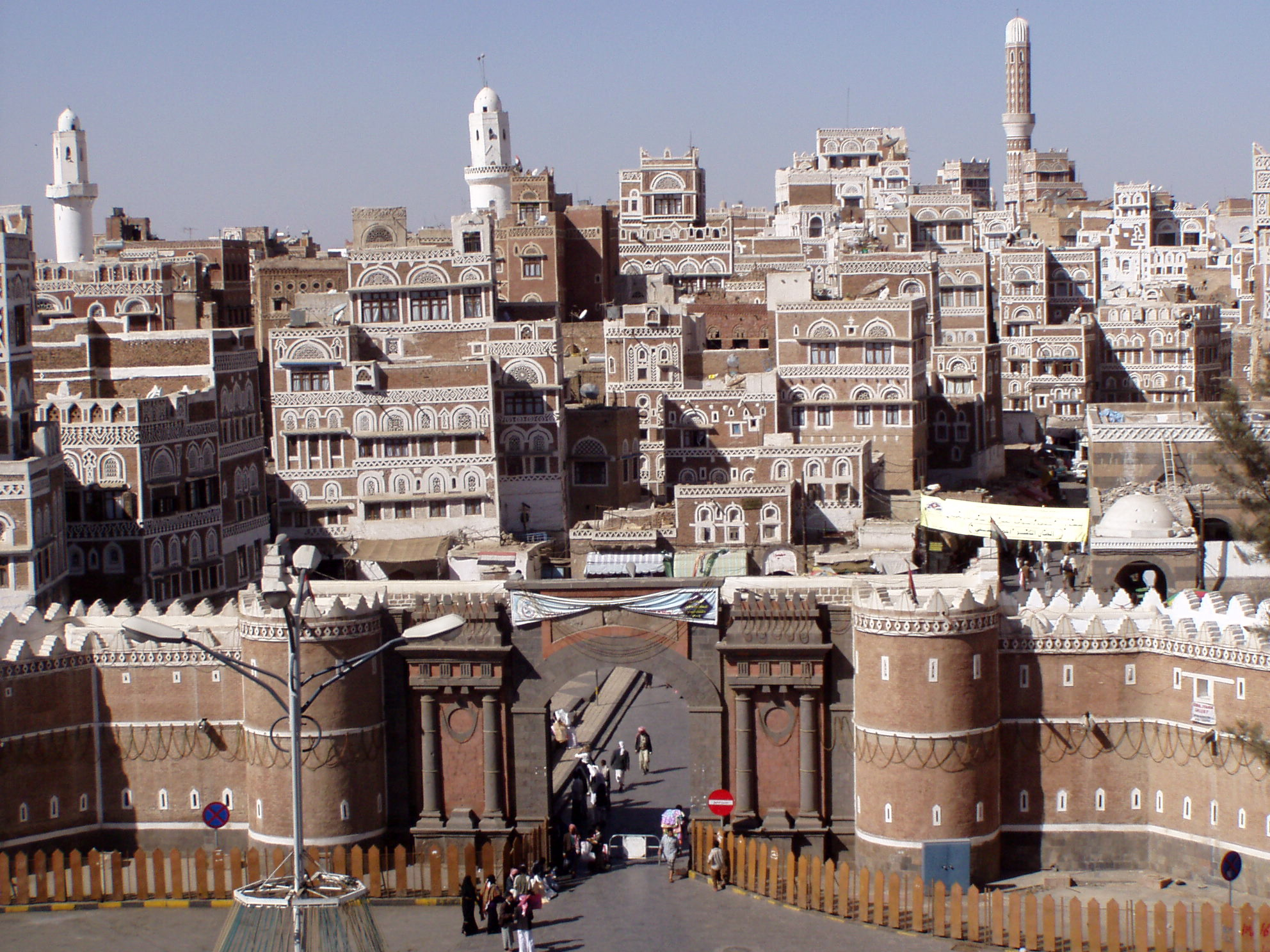 The Gate of Yemen is the most important in the medieval wall that surrounds the old city of Sana'a. From this spot, the old city with its tower houses and multiple minarets truly seems right out of a story from the Thousand and One Nights.